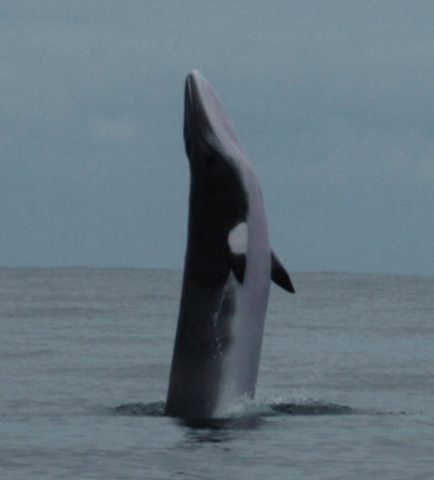 A Common minke whale in the Azores